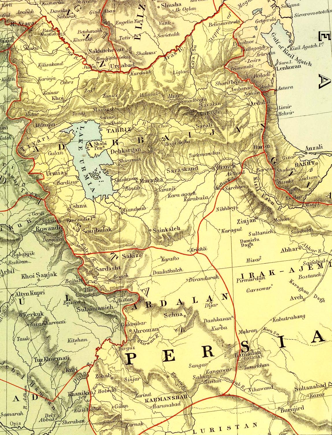 Asia Minor, the Caucasus & the Black Sea. London atlas series. Stanford's Geogl. Estabt. London : Edward Stanford, 26 & 27, Cockspur St., Charing Cross, S.W. (1901)